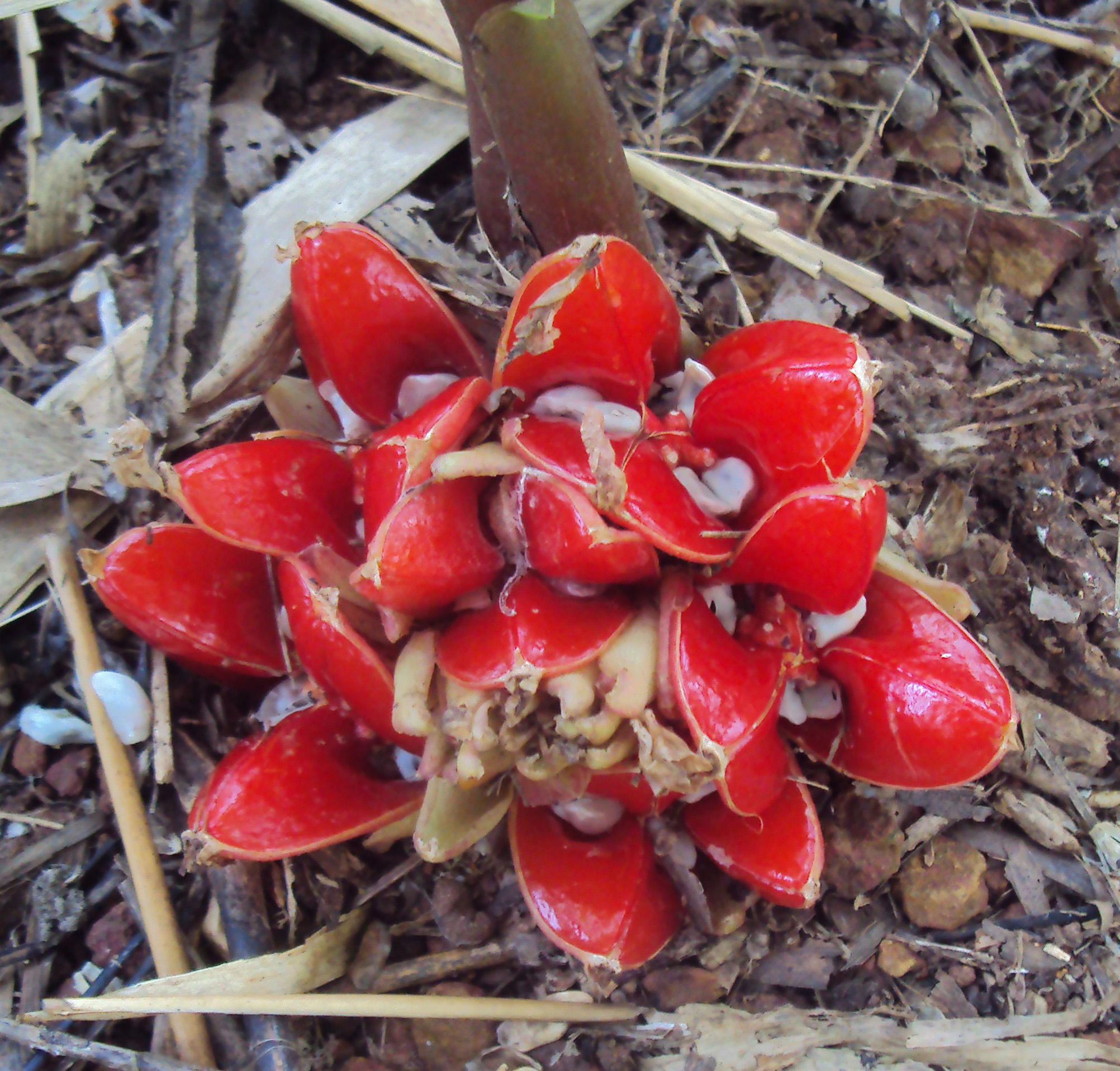 Zingiber cernuum